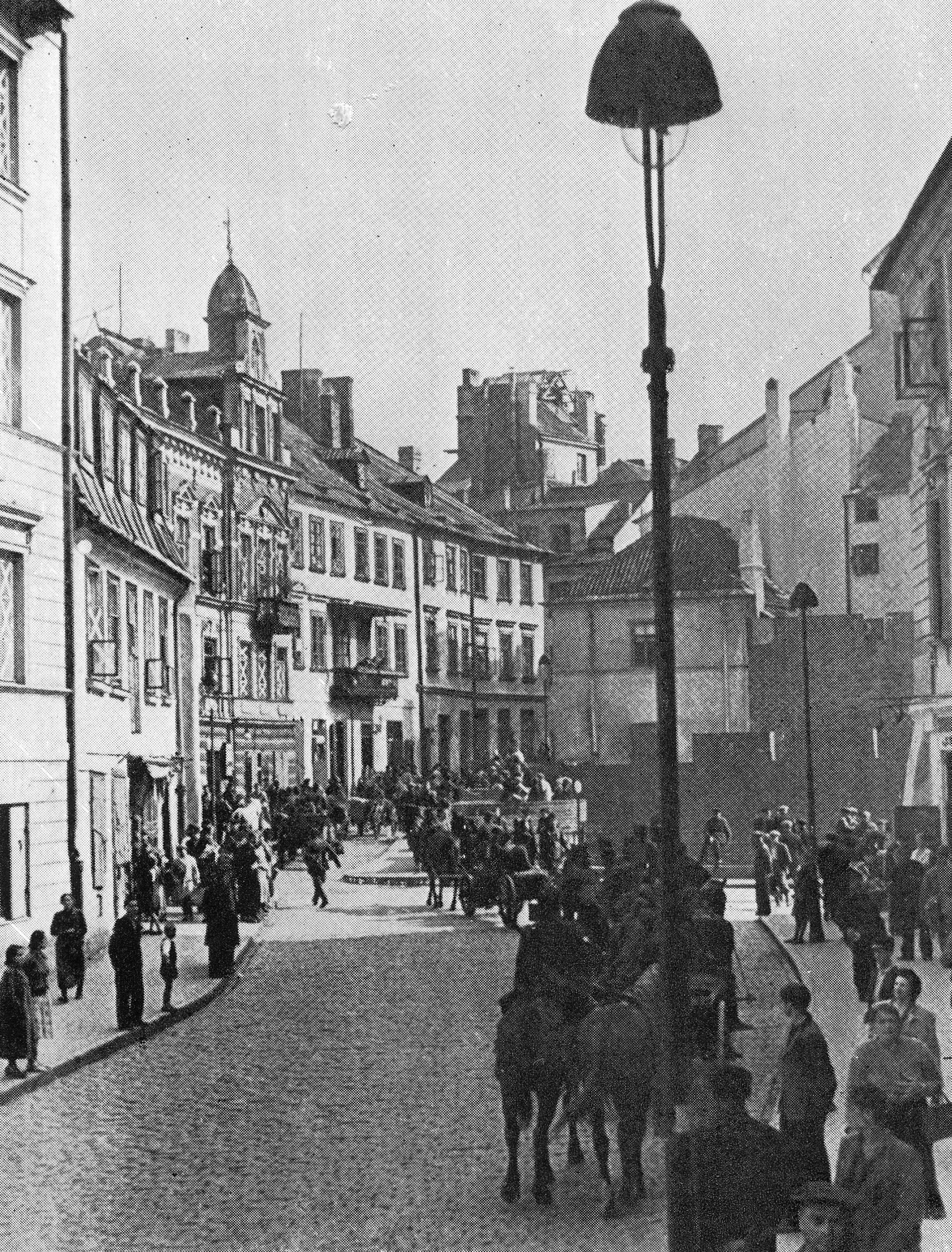 Freta and Nowomiejska Streets in Warsaw